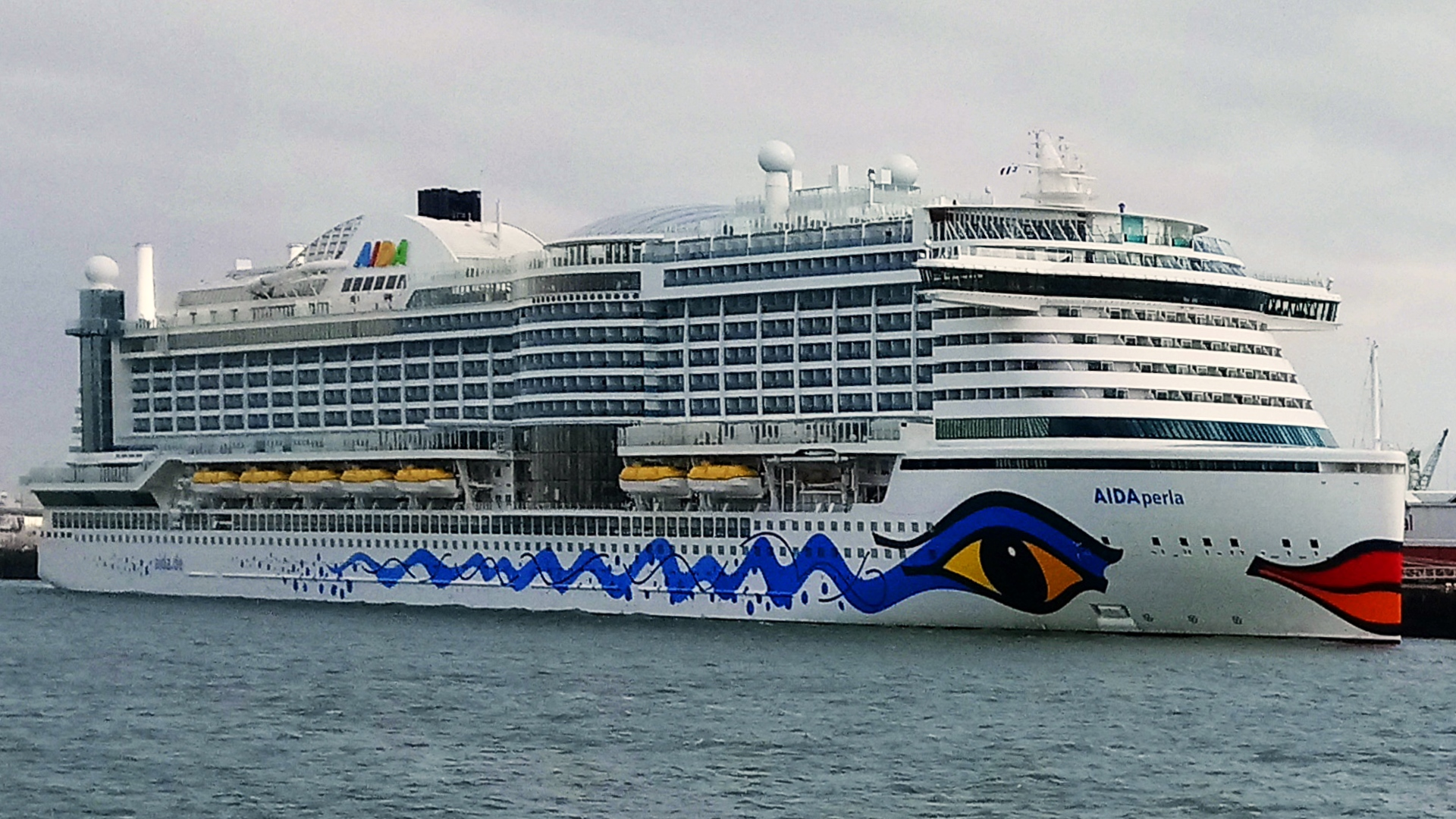 Port of Le Havre (France, Normandy)